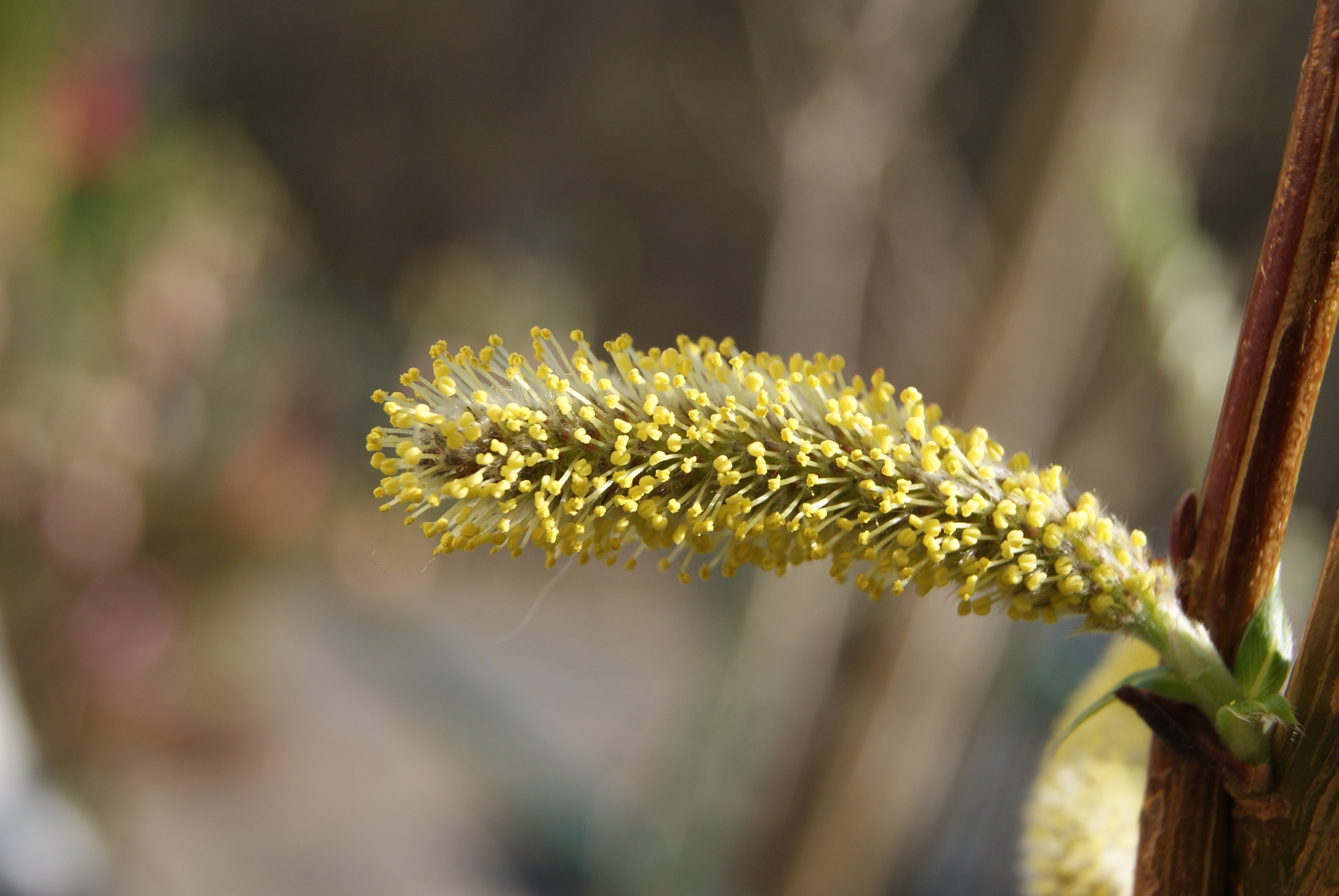 Salix udensis ('Sekka')